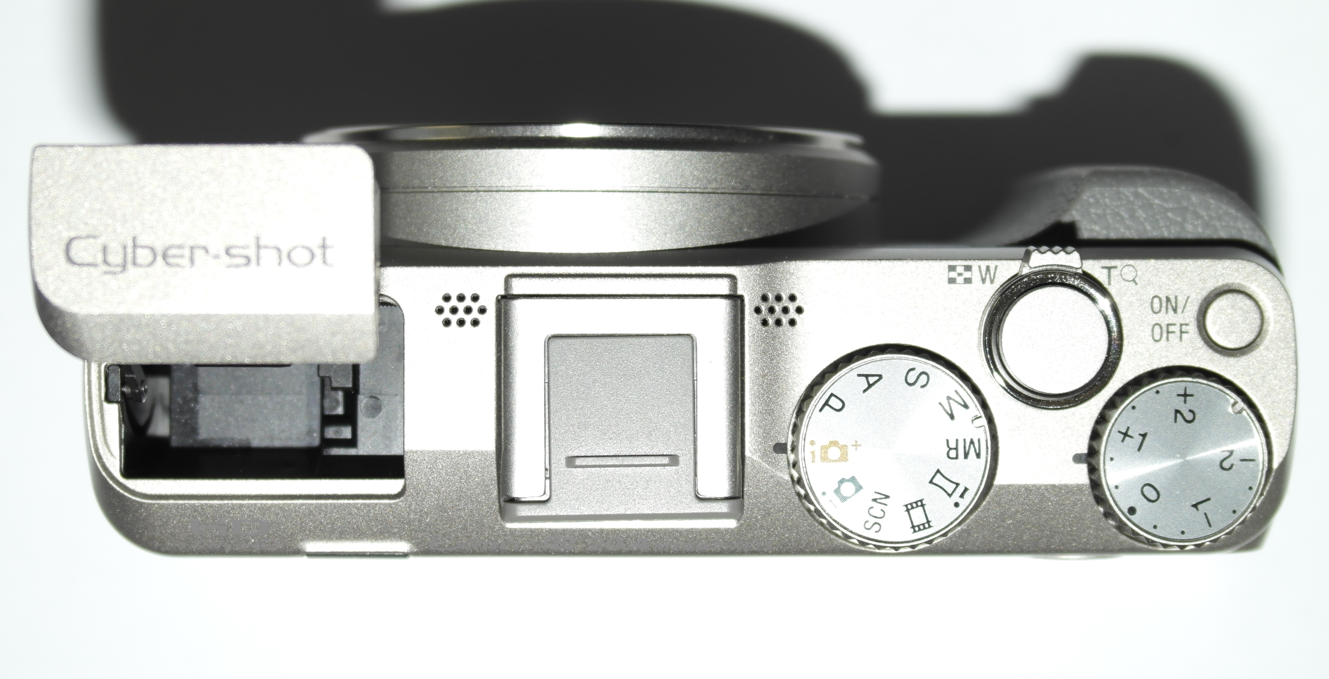 2013, the world's smallest and lightest compact with a 30x optical zoom 24-720mm, 20 megapixels, Sony G lens, Sweep Panorama, 1080p Full HD video, 10fps continuous shooting, versatile hotshoe for optional accessories (EVF, flash, external mic), Wi-Fi, lacks of 3D mode dial position as HX20V and HX200V and is replaced by 3D Scene for shoot 3D not 3D Sweep Panorama (NO GPS due the "V" is not placed in the name such as the HX [means superzoom]).